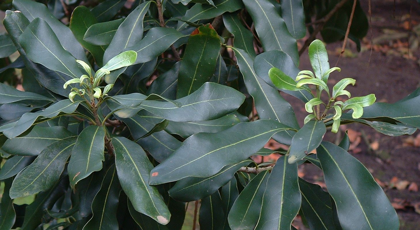 Macadamia shoots showing zinc deficiency symptoms. The youngest leaves show chlorosis (yellowing), dwarfing and malformation. Near Margate, KwaZulu-Natal.